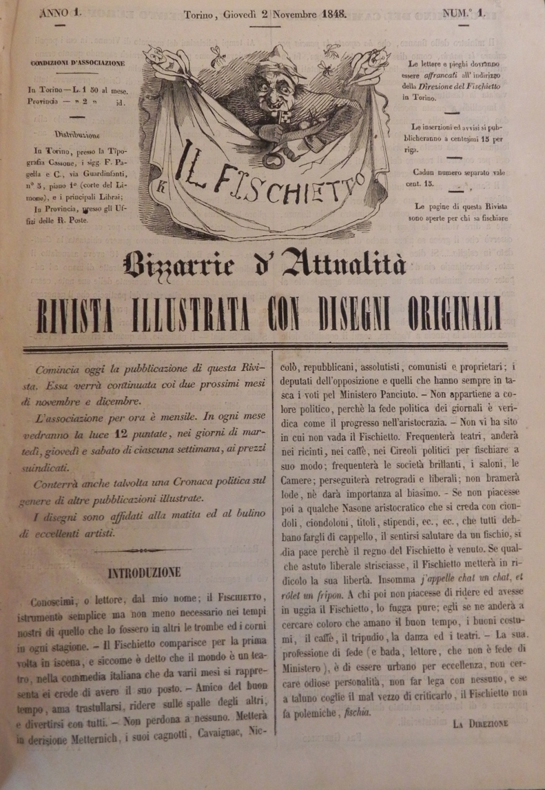 magazine Il Fischietto, first page, published by Lorenzo Pedrone in 1848